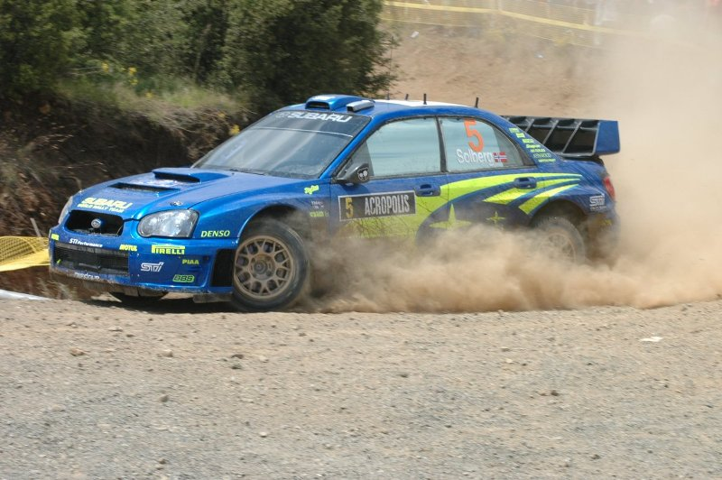 Petter Solberg driving a Subaru Impreza WRC at the 2005 Acropolis Rally.